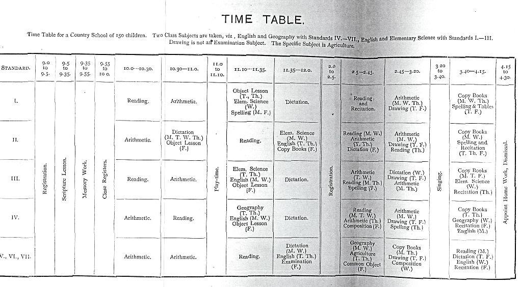 The Small School Timetable advocated by Gladman in 1885